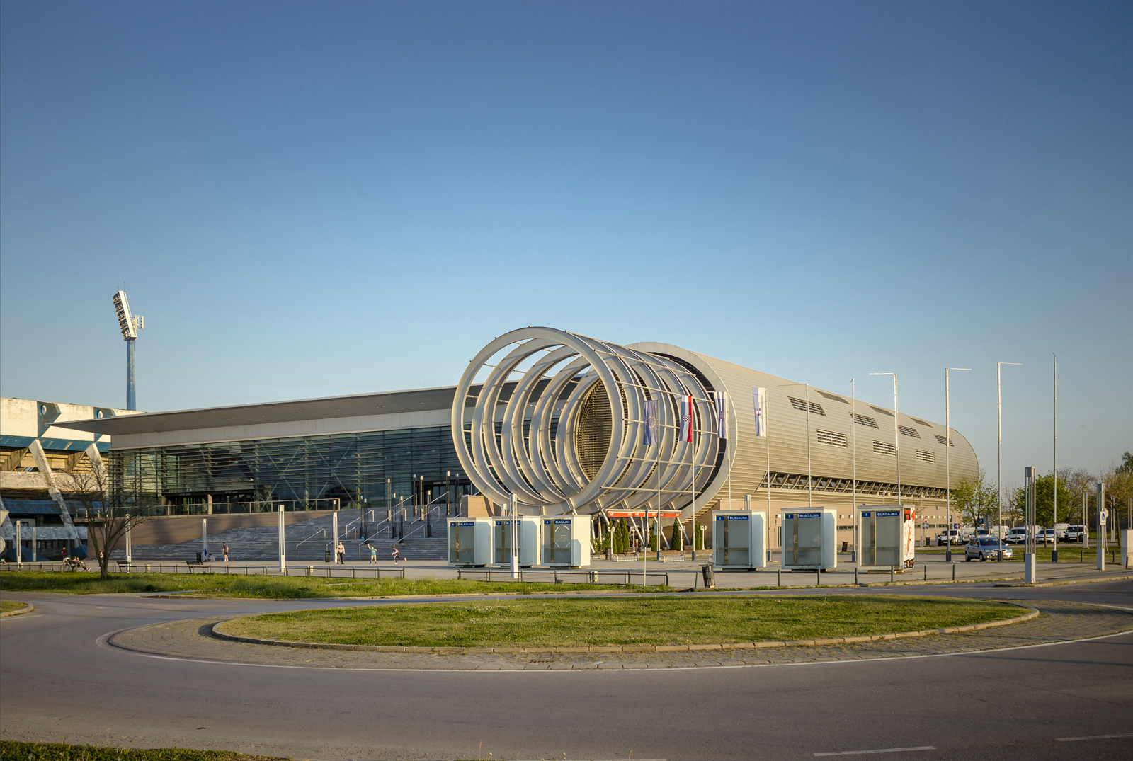 Sports hall Gradski Vrt in Osijek